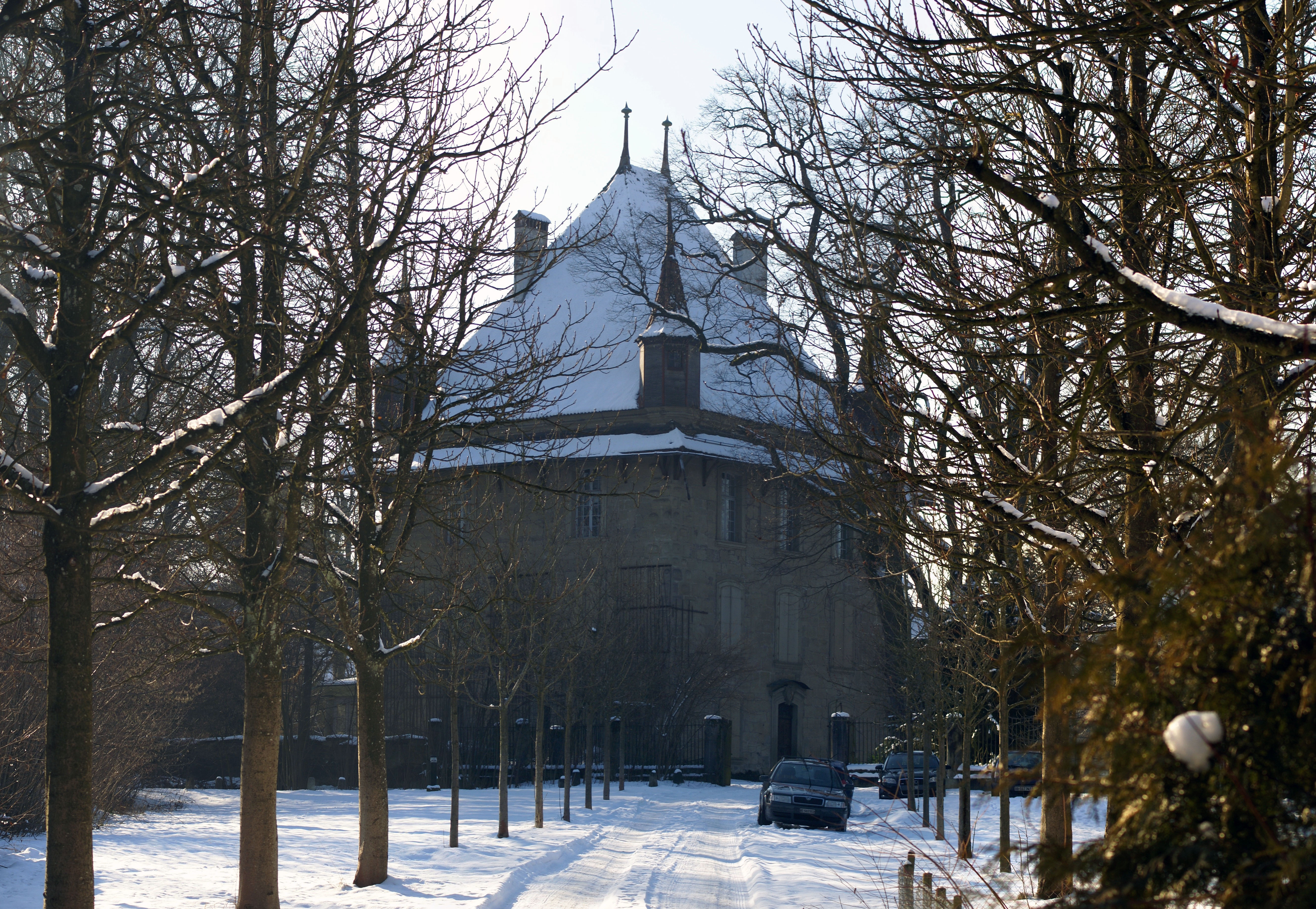 Castle Holligen, Bern, Switzerland. East view.